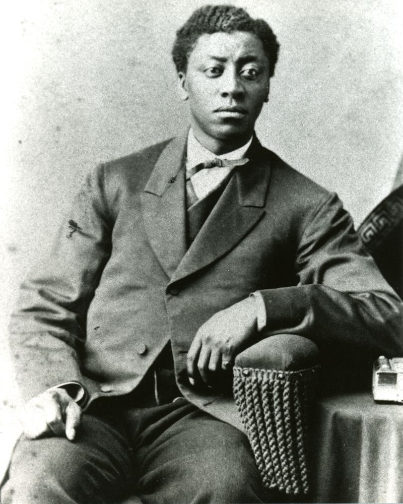 Second eldest son of renowned abolitionist and orator Frederick Douglass.